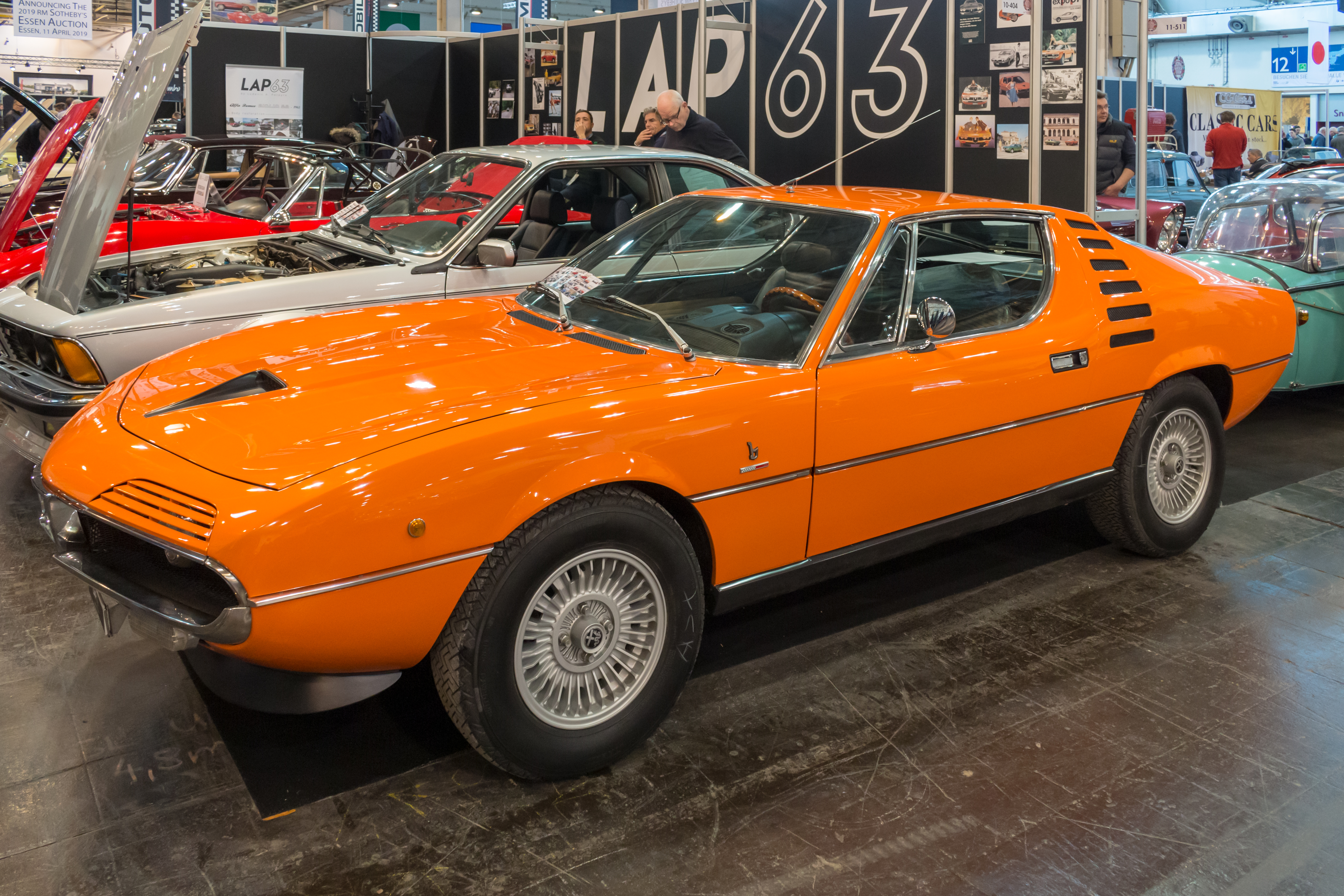 Alfa Romeo Montreal, Techno-Classica 2018, Essen